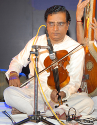 Photograph taken at Concert by Violin artiste V.V. Ravi in Chennai - year 2012